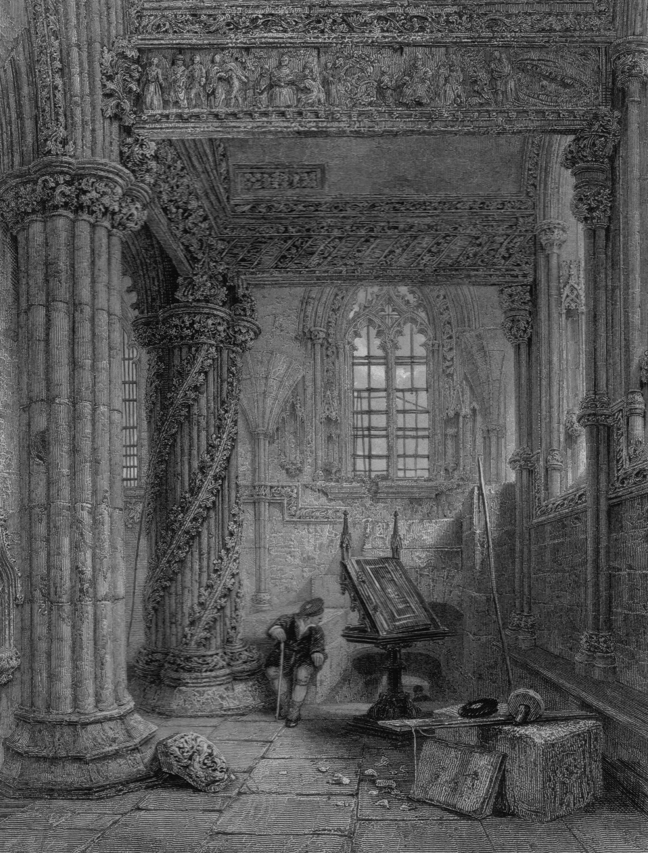 An interior view of Roslyn Chapel with the Apprentice Pillar, etc. Dalkeith, Scotland